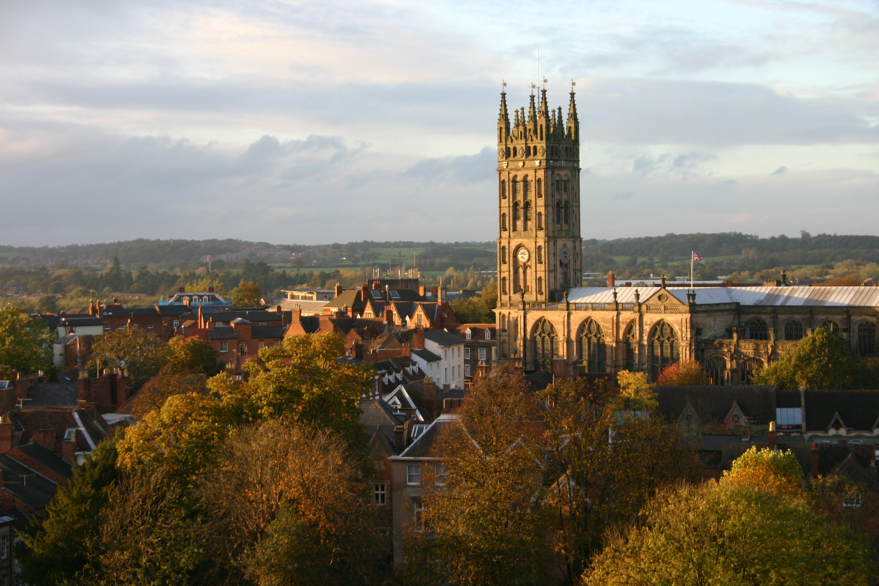 The Collegiate Church of St. Mary's, Warwick. Taken from Guy's Tower, Warwick Castle, Warwickshire, England.